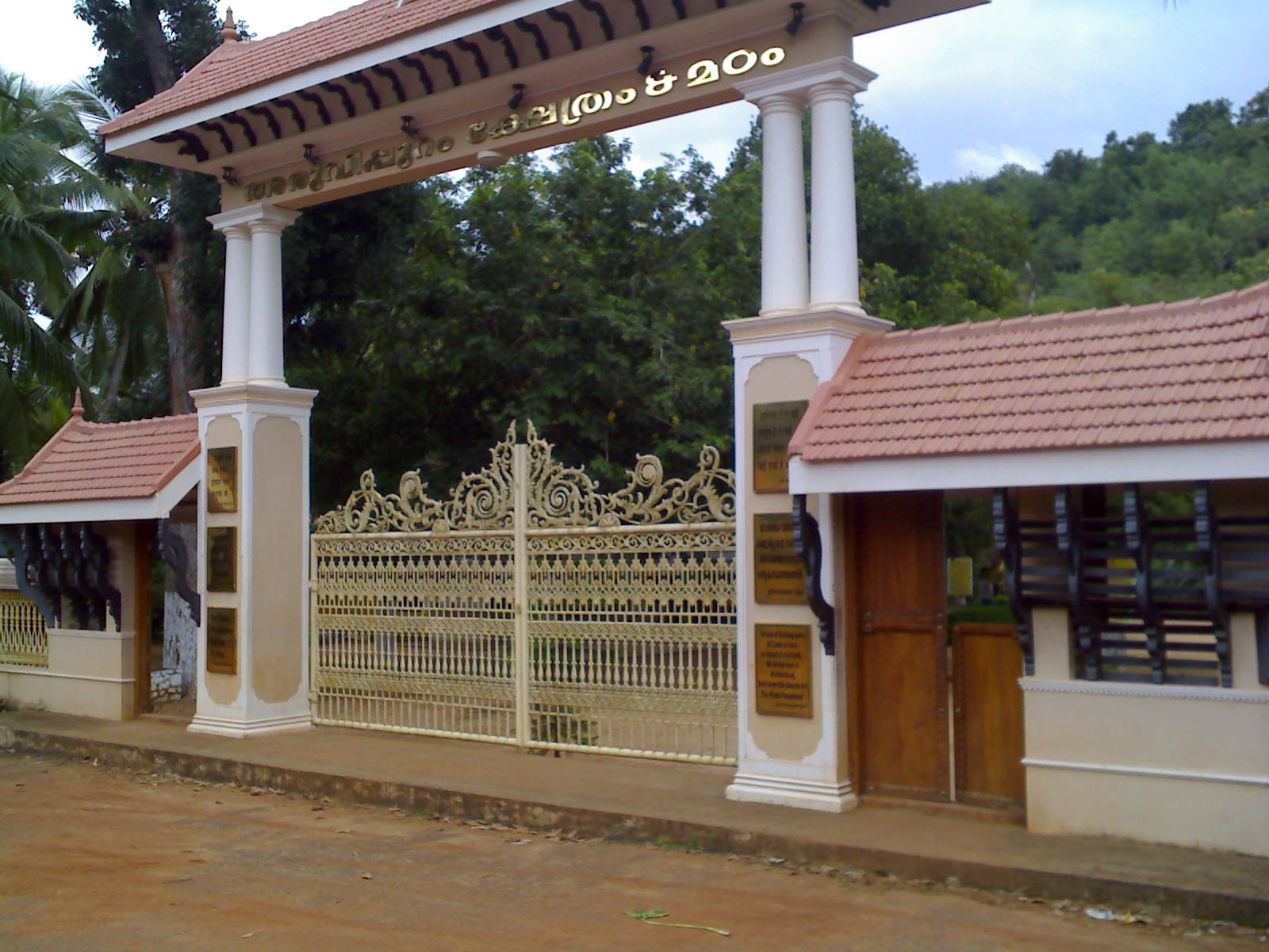 (WP:IFU description) Found at Photograph of Aruvippuram taken by me --116.68.71.40 19:48, 9 September 2007 (UTC)